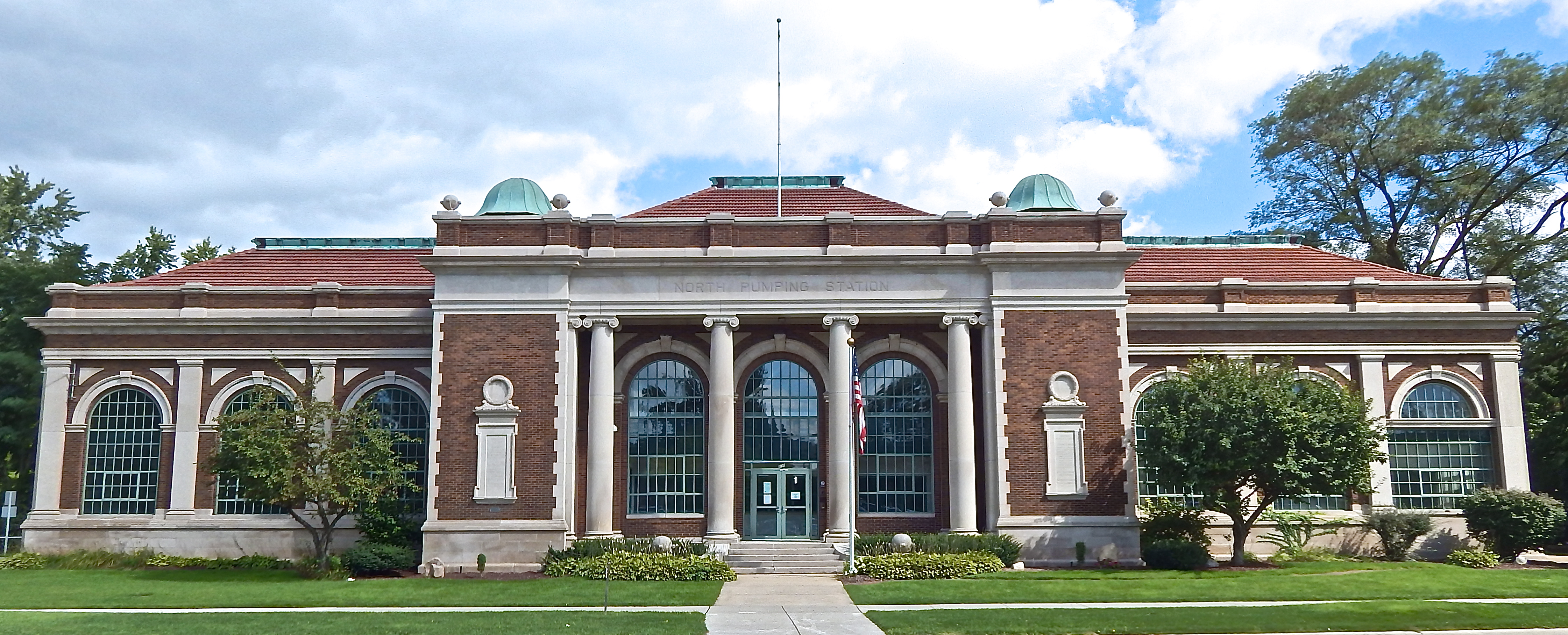 North Pumping Station, 830 N. Michigan St. South Bend